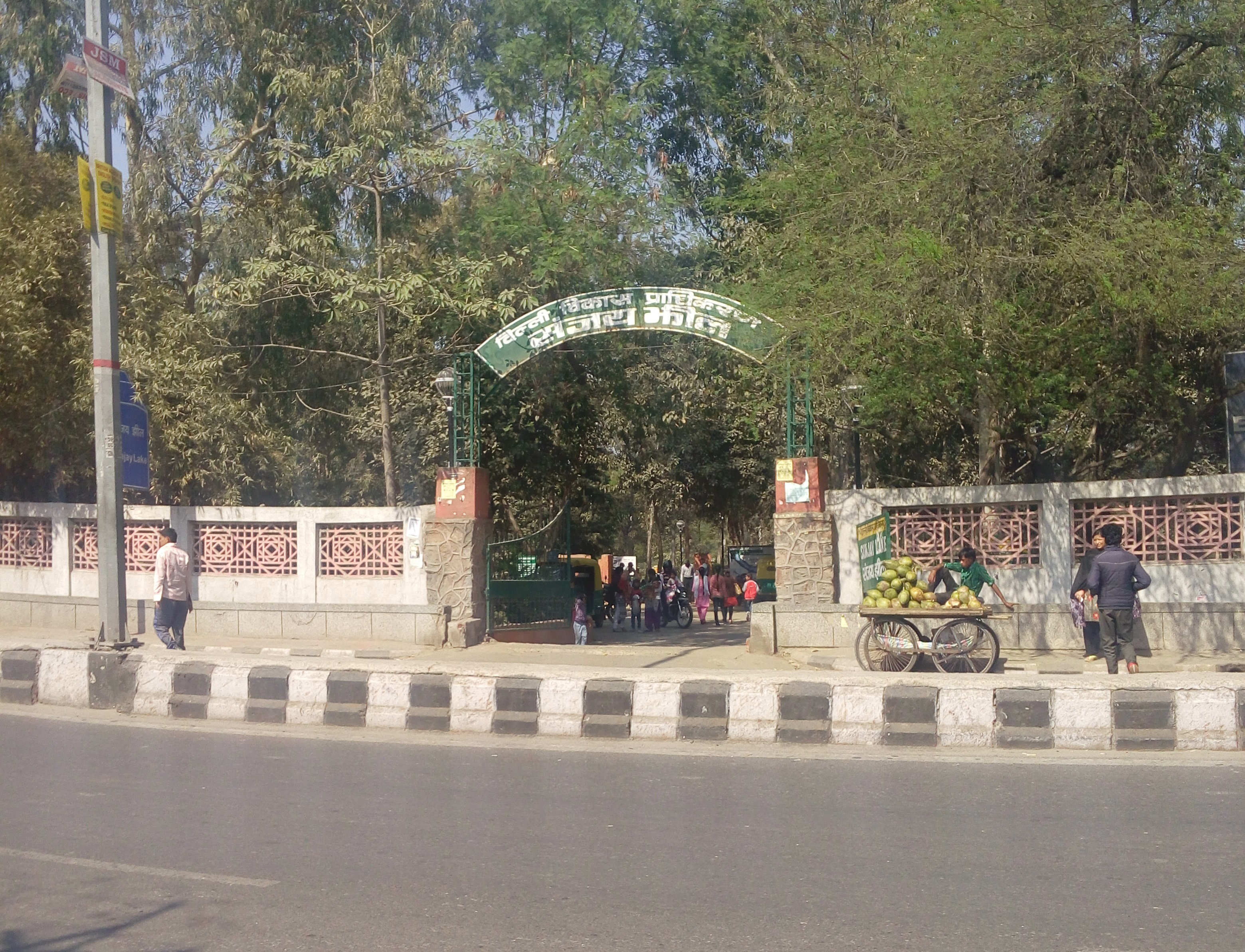 Entrance to Sanjay Lake in New Delhi, India